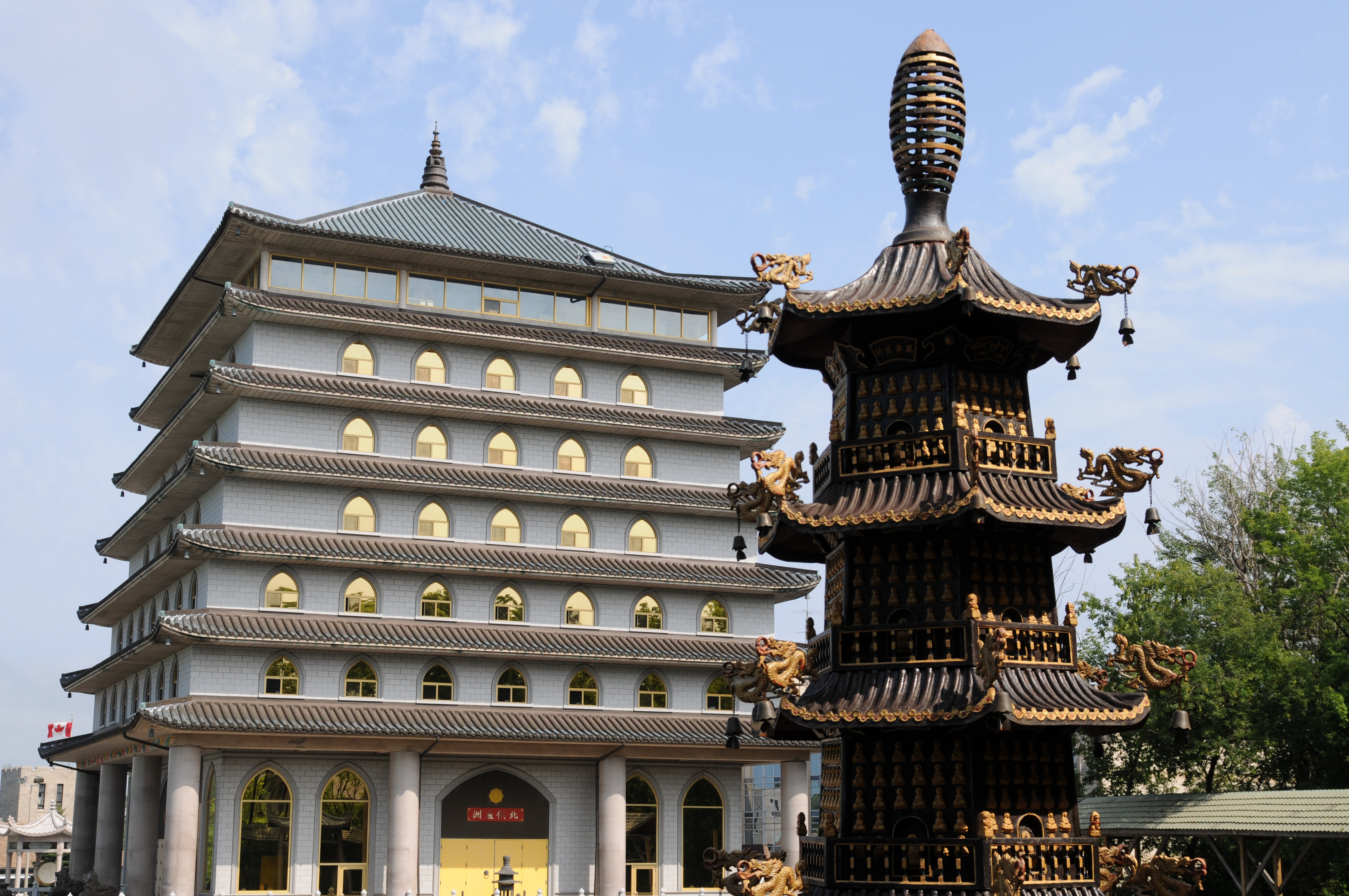 Cham Shan Temple is a 7 level Chinese style building contains precious collections of Buddhist arts and artifacts.